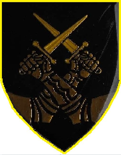 SANDF Regiment Bloemspruit emblem